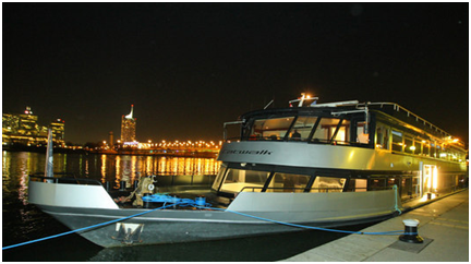 MS Catwalk at Vienna´s Millenium landing